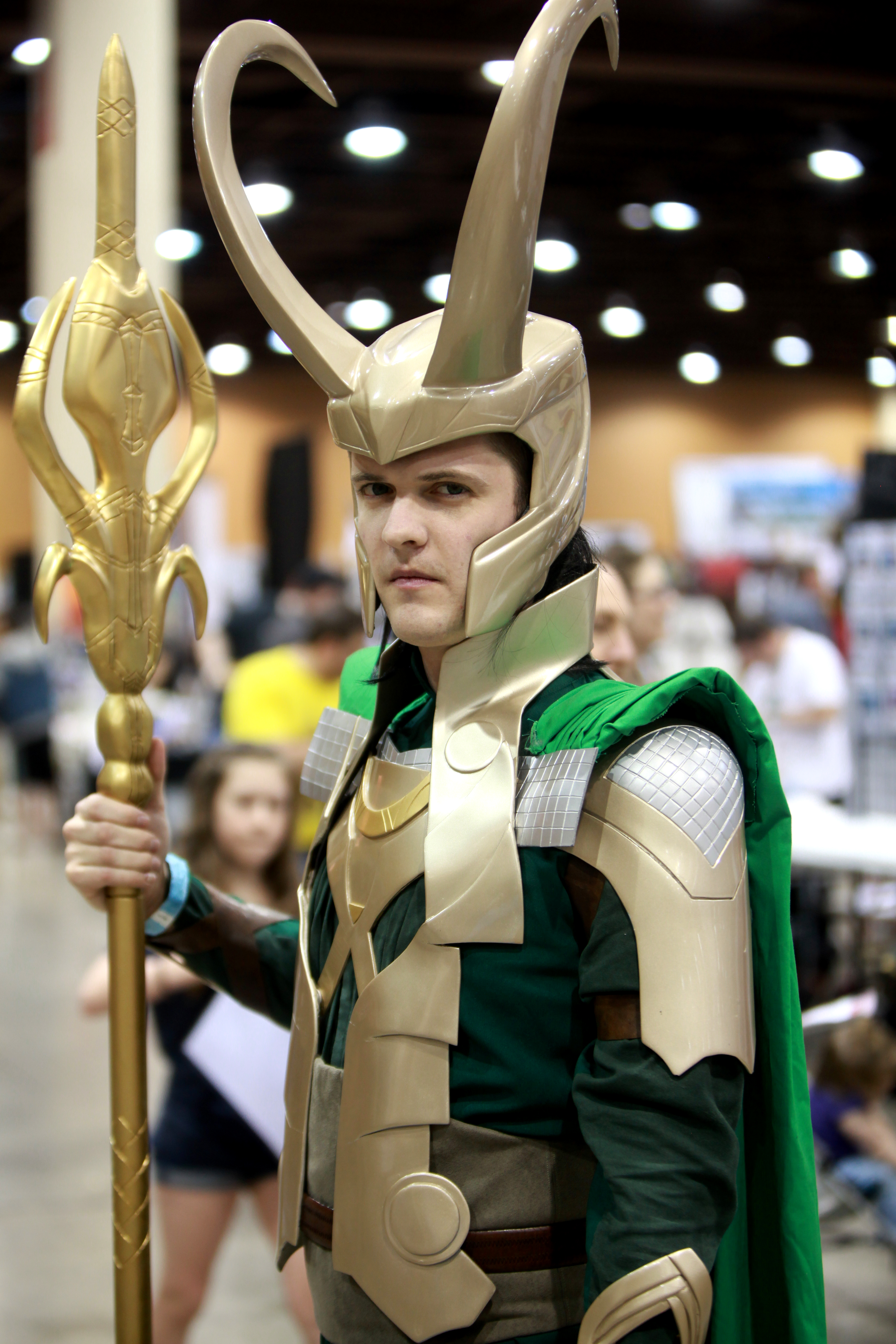 Loki cosplayer at the 2014 Amazing Arizona Comic Con at the Phoenix Convention Center in Phoenix, Arizona.